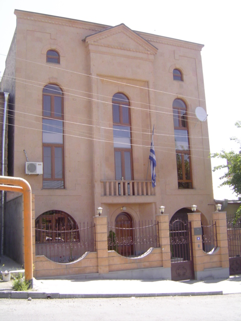 The Greek Embassy of Armenia in the city of Yerevan. Photo taken by Marshal Bagramyan.